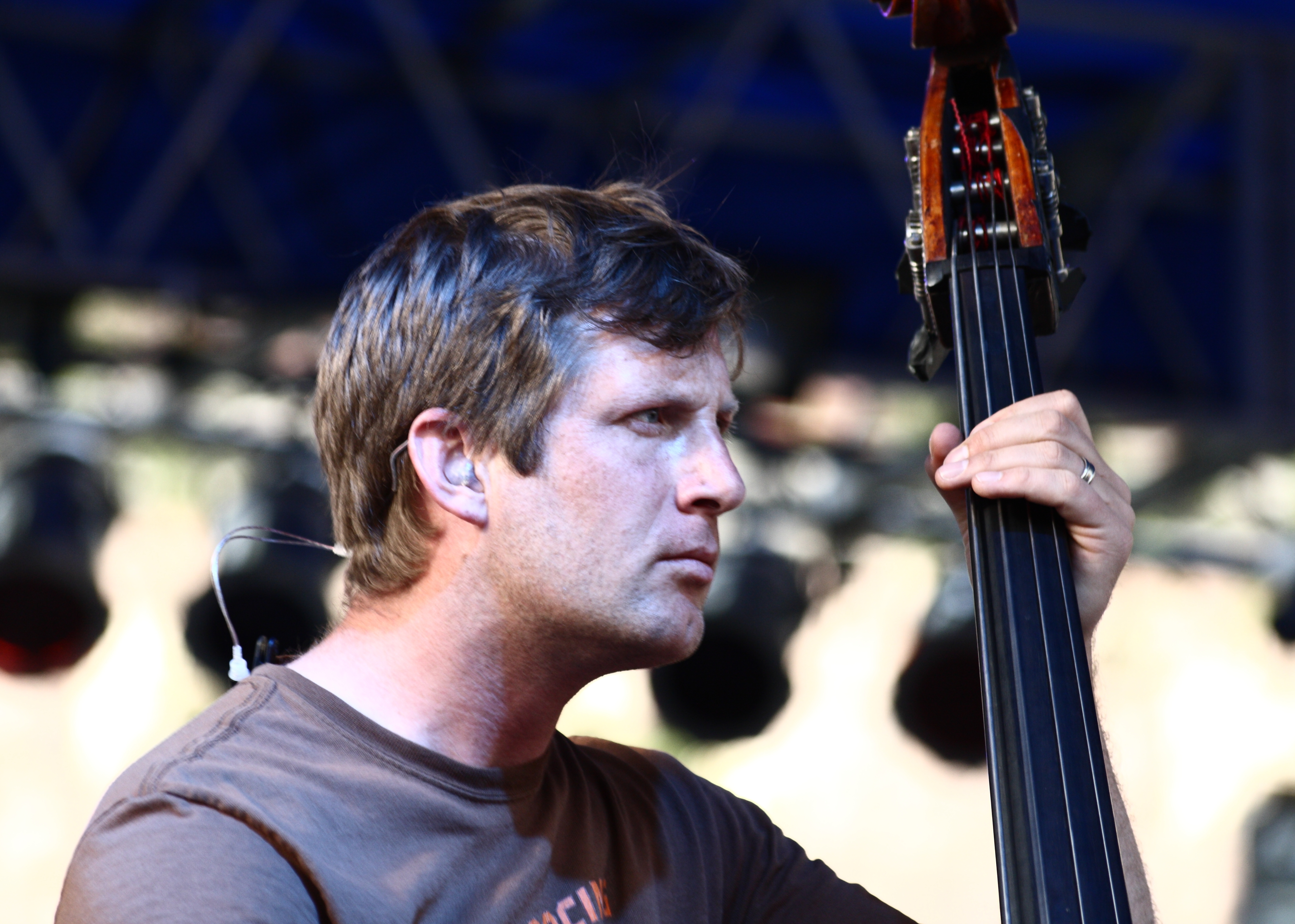 The Decmeberists performing at the Yale University "Spring Fling" on 28 April 2009, on Yale's Old Campus. Part of a larger set on Flickr: The Decemberists, 28 April 2009